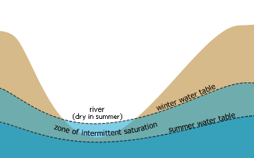 Illustration of seasonal fluctuations in the water table.